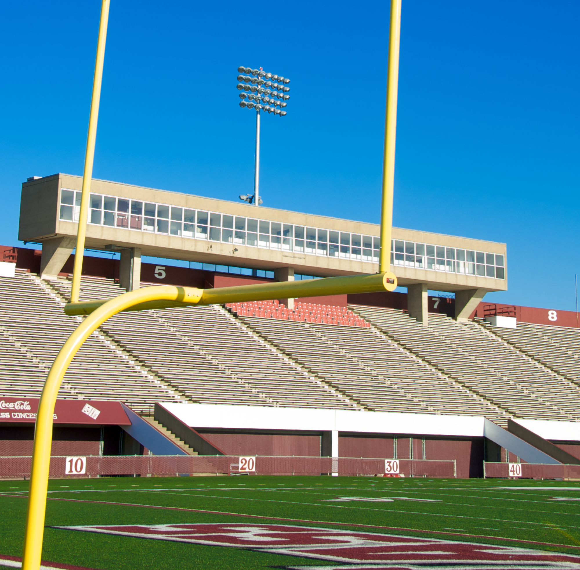 The new lights at the University of Massachusetts' McGuirk stadium.